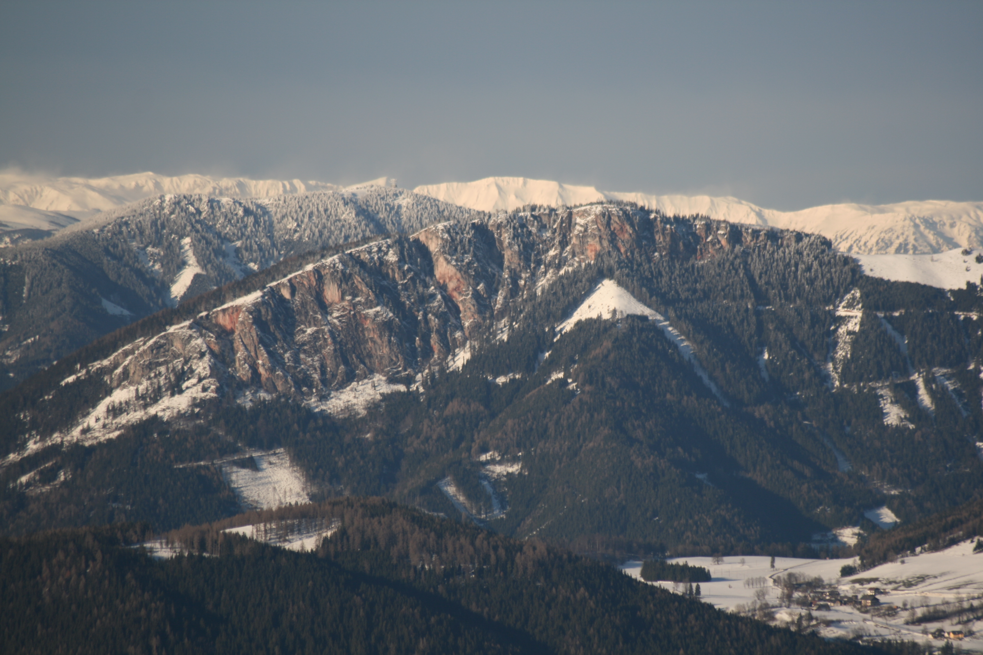 "Rote Wand" mountain near Graz, Styria, Austria, Europe